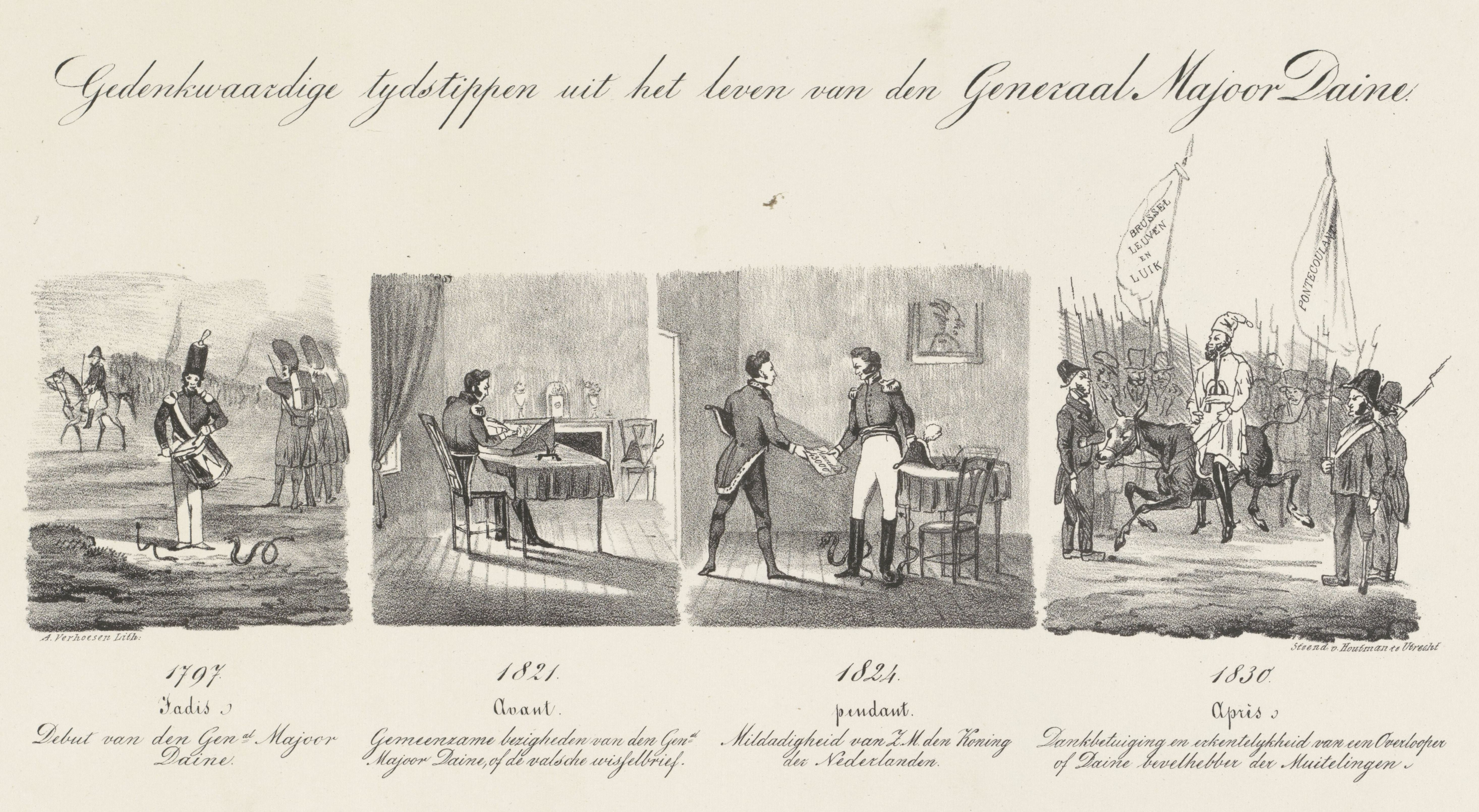 Cartoon on the life of general Daine